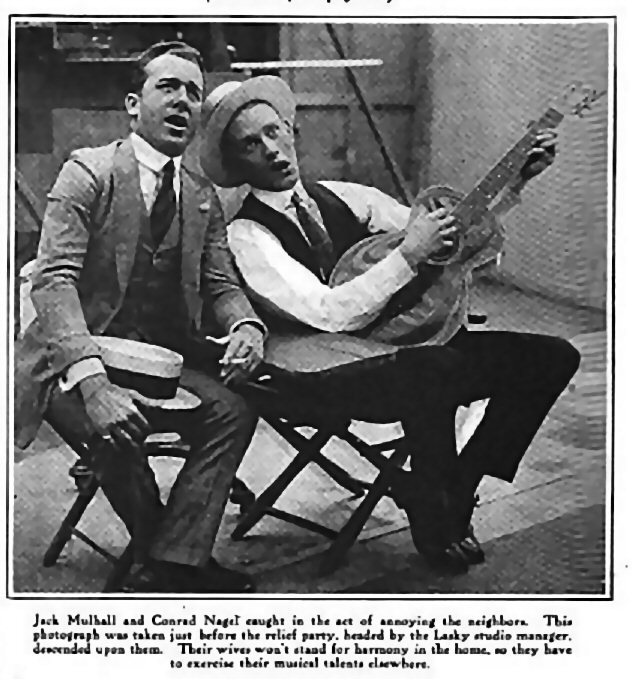 Actors Jack Mulhall and Conrad Nagel, ca. 1920